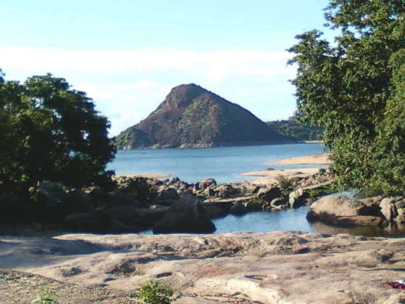 Thirumurthi hill in Pollachi taluk, Thiruppur District, TamilNadu.